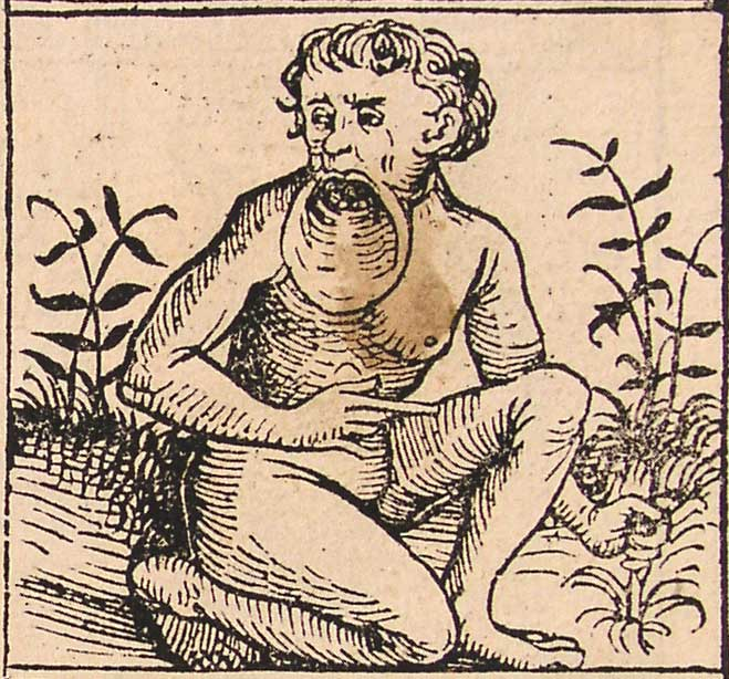 Big mouth